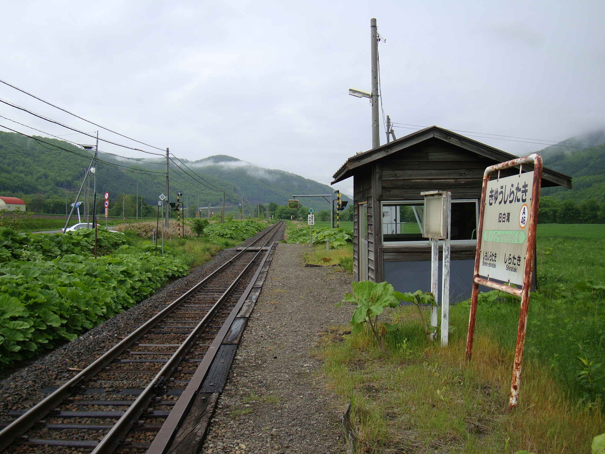 Kyū-Shirataki Station